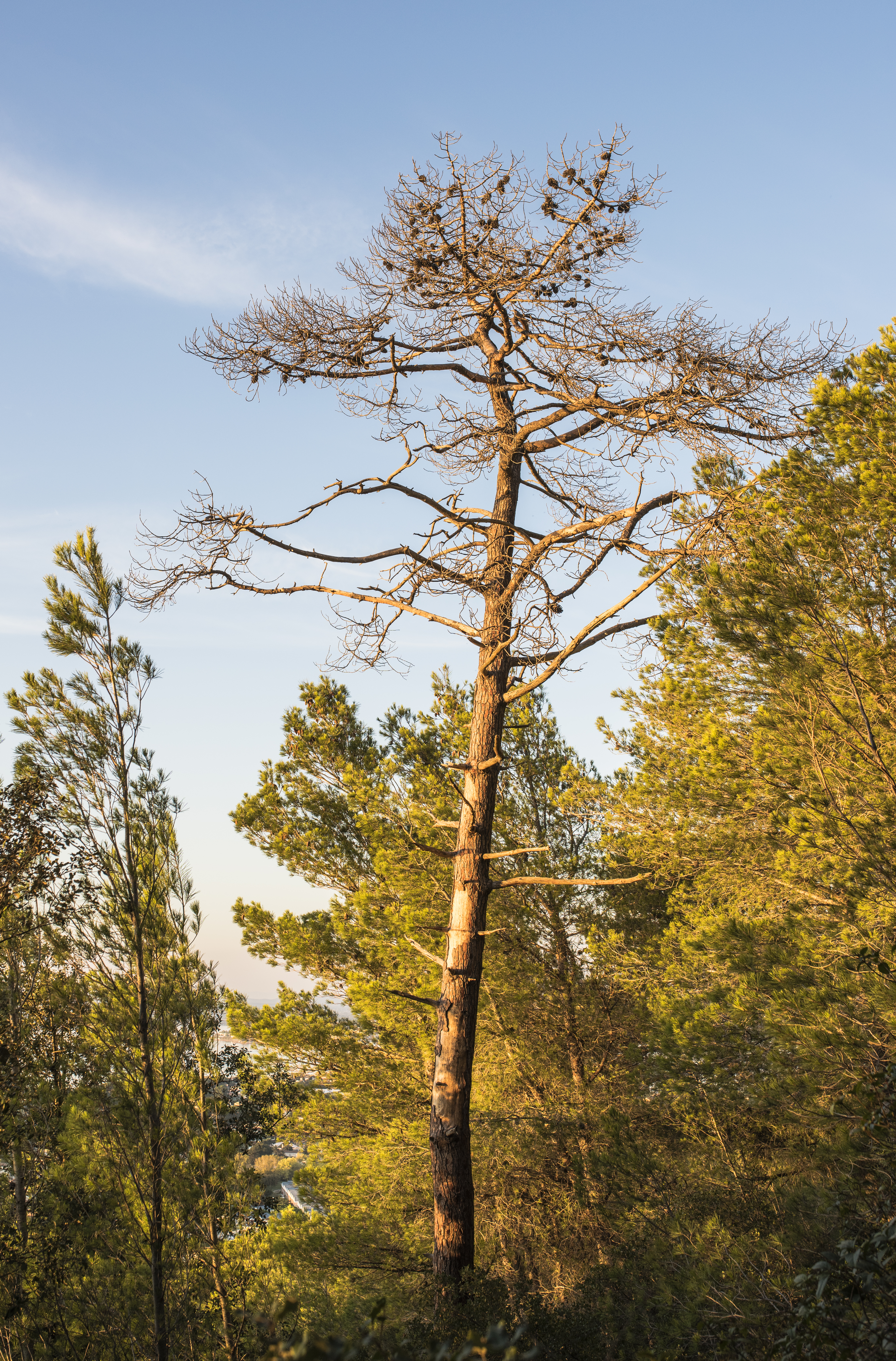 A dead Aleppo Pine (Pinus halepensis).